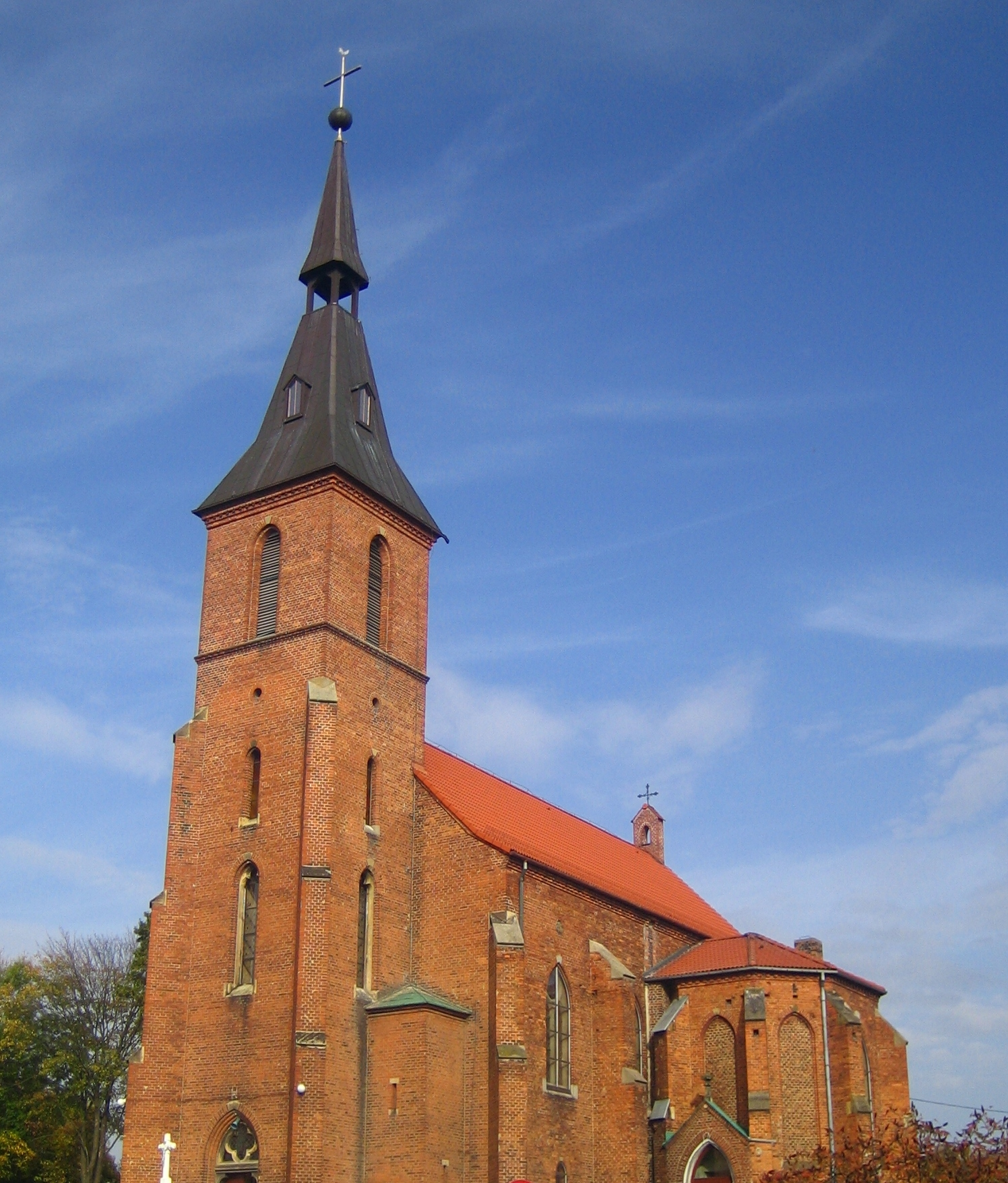 Church in Dlugomilowice, Silesia, PL